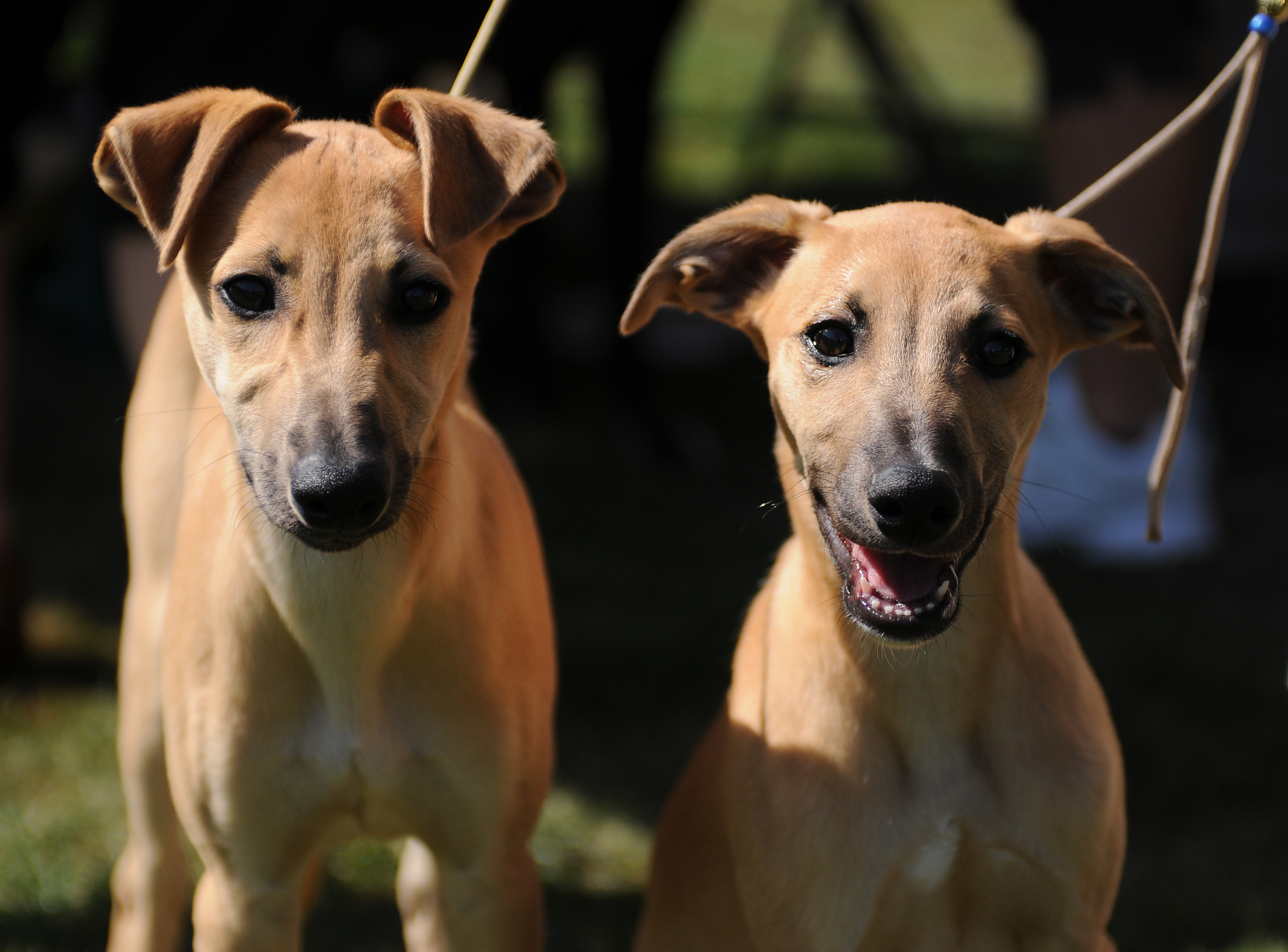 Whippets